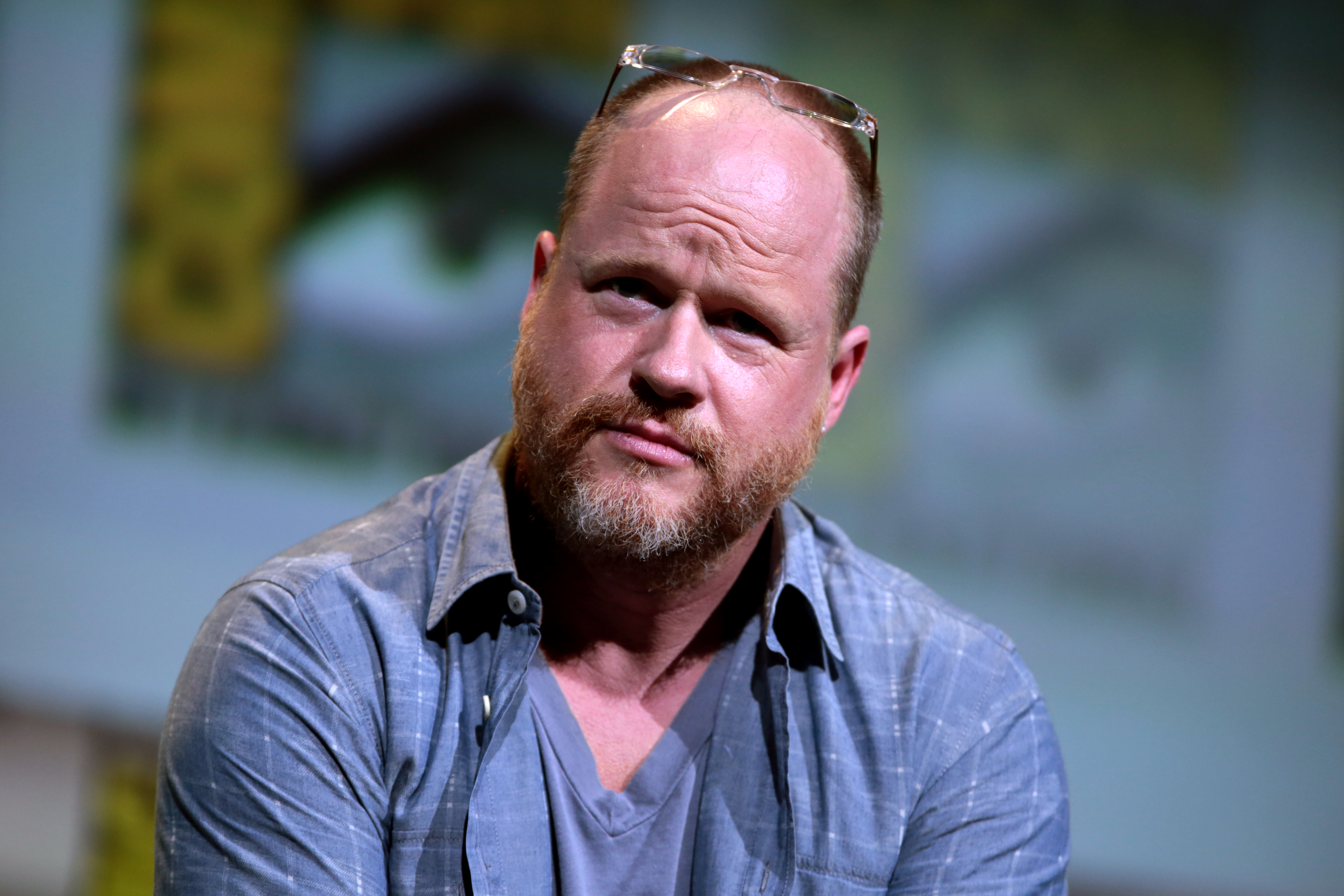 Joss Whedon speaking at the 2016 San Diego Comic Con International at the San Diego Convention Center in San Diego, California.